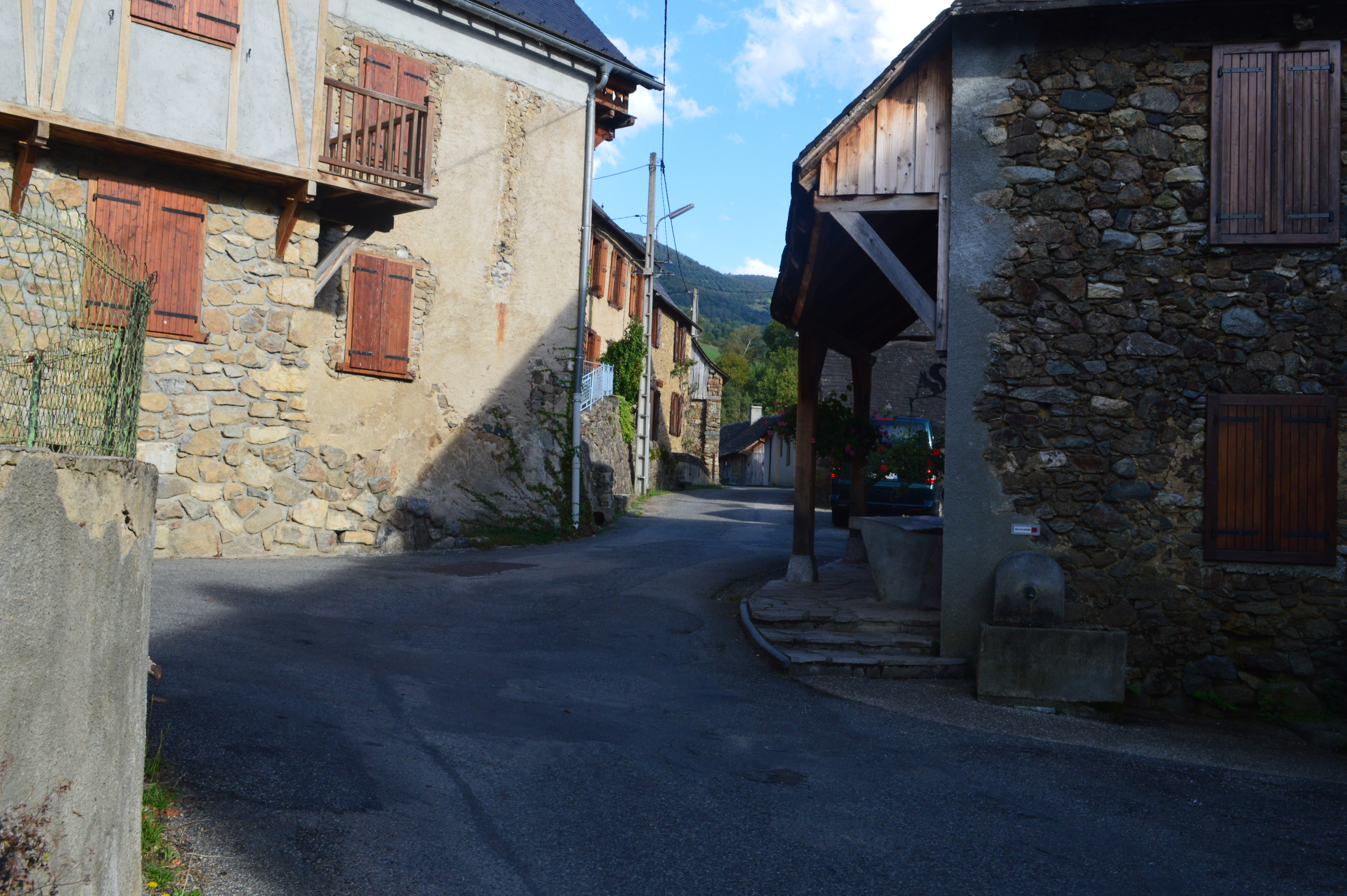 A Street in Arrien-en-Bethmale, Ariège, France.